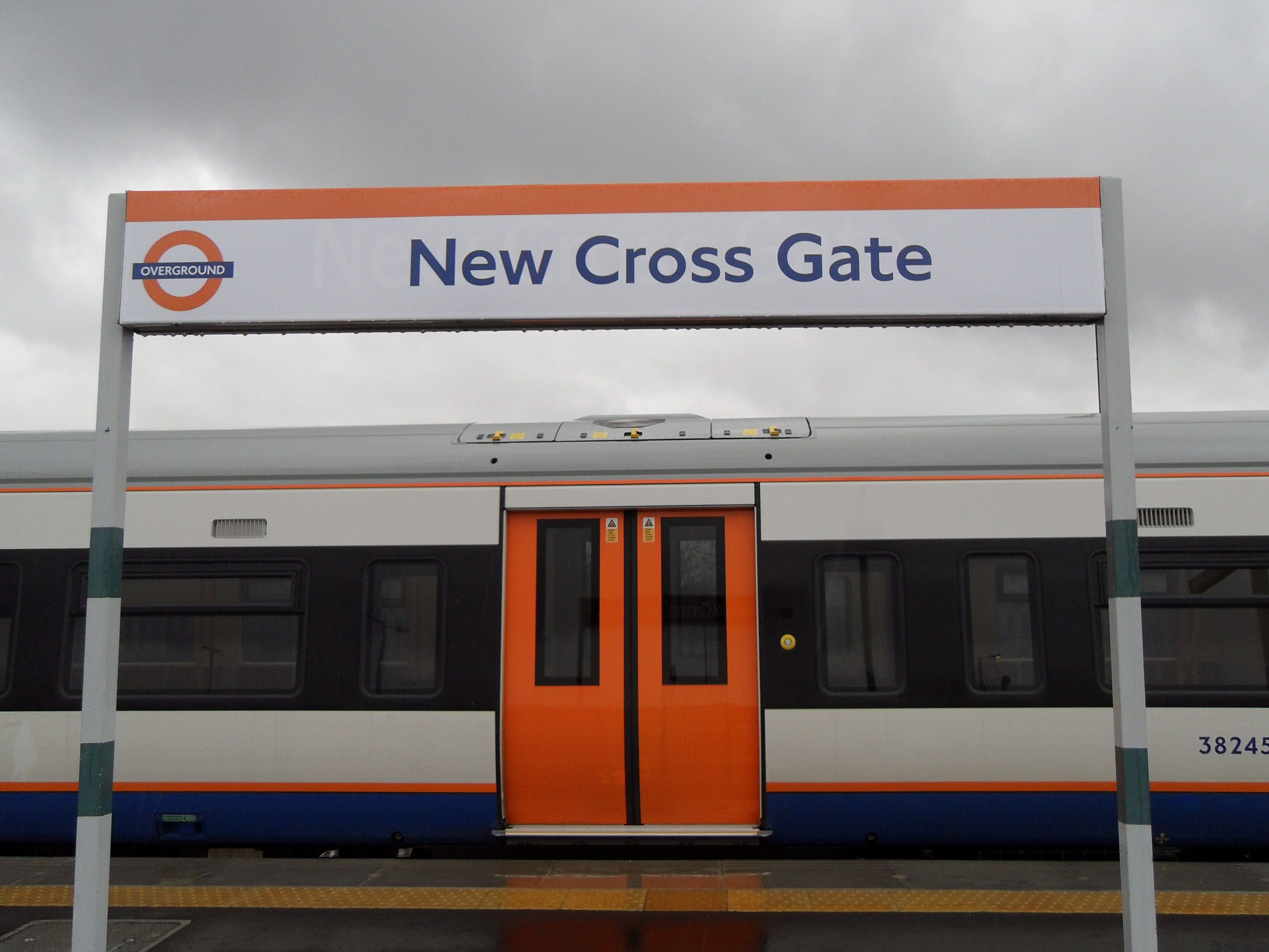 New Cross Gate station platform signage, in London Overground orange and white colours. As of April 2010, this is the only example of this signage at the station, the other signs retaining the Southern white letters on dark green. However by May 2010, all signage had been replaced with black lettering on orange background, with small Overground roundel on the far left.